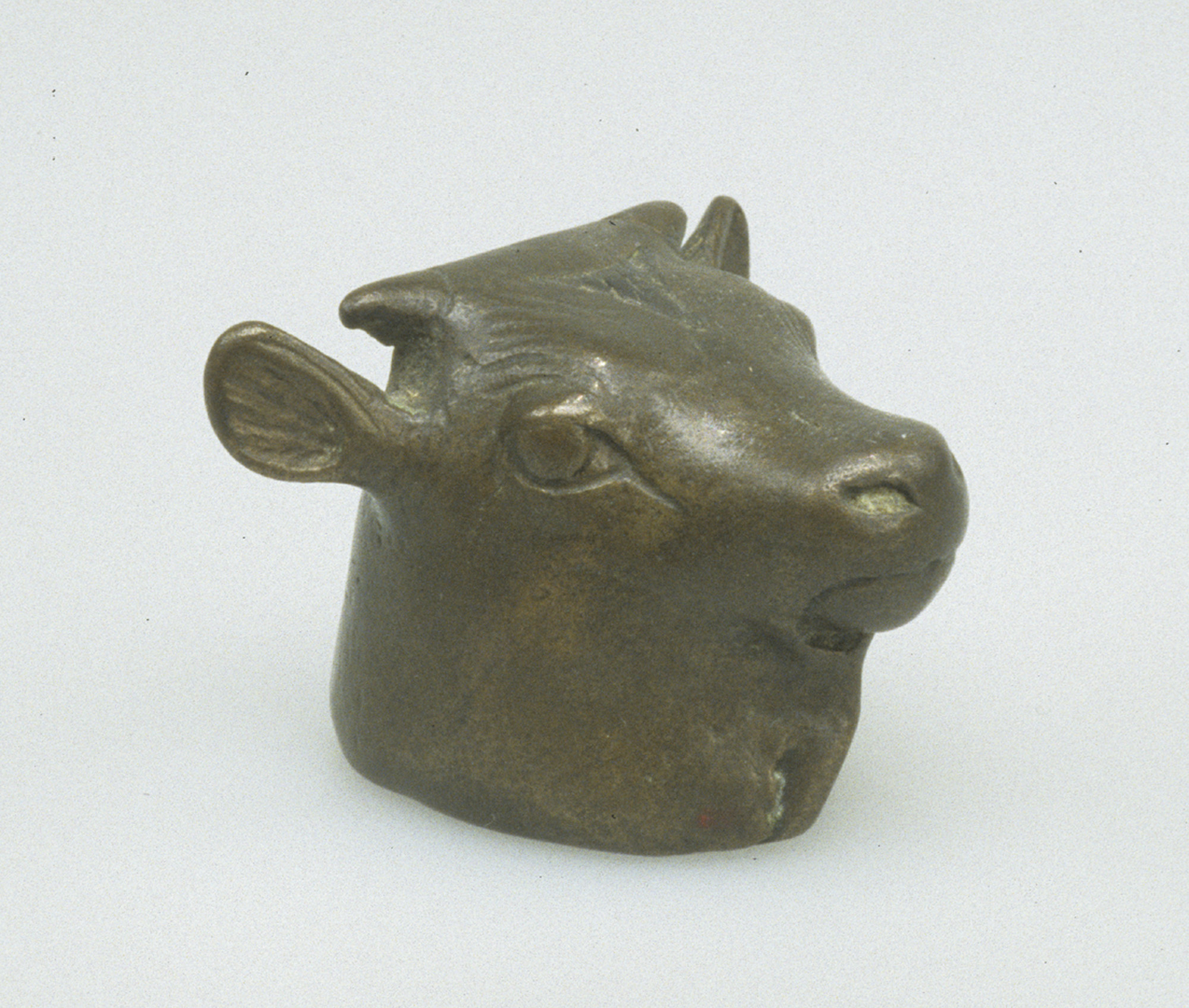 Weight, 2 deben, Bull's head